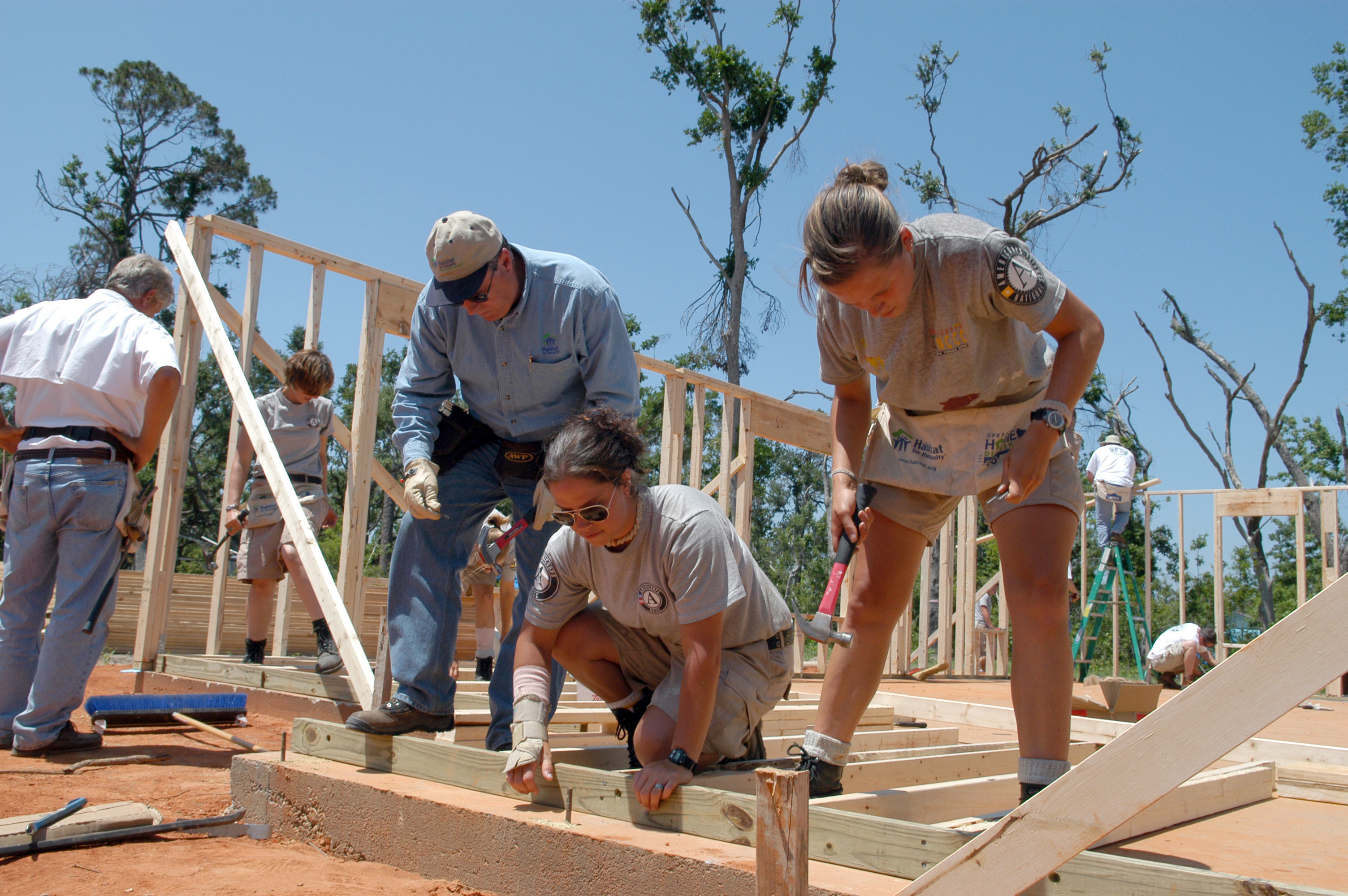 Gulfport, Miss., April 27, 2006 - Kent Adcock, an Associate Director with Habitat for Humanity International, works with AmeriCorps*NCCC members Lori Hermosillo and Meredith MacMillan. This building will first be used to house volunteers assisting with Gulf Coast recovery, then presented to a displaced resident. George Armstrong/FEMA